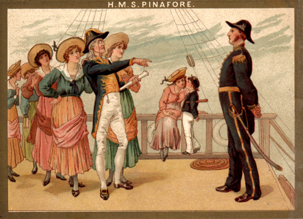 This image is from a D'Oyly Carte Opera Company souvenir programme, dated 23 January 1886, during the original a production of The Mikado at the Savoy Theatre in London. This souvenir includes pages with scenes from the earlier Gilbert and Sullivan operas, including this one from H.M.S. Pinafore featuring Sir Joseph Porter, his "sisters, cousins and aunts", Captain Corcoran and the midshipmite.